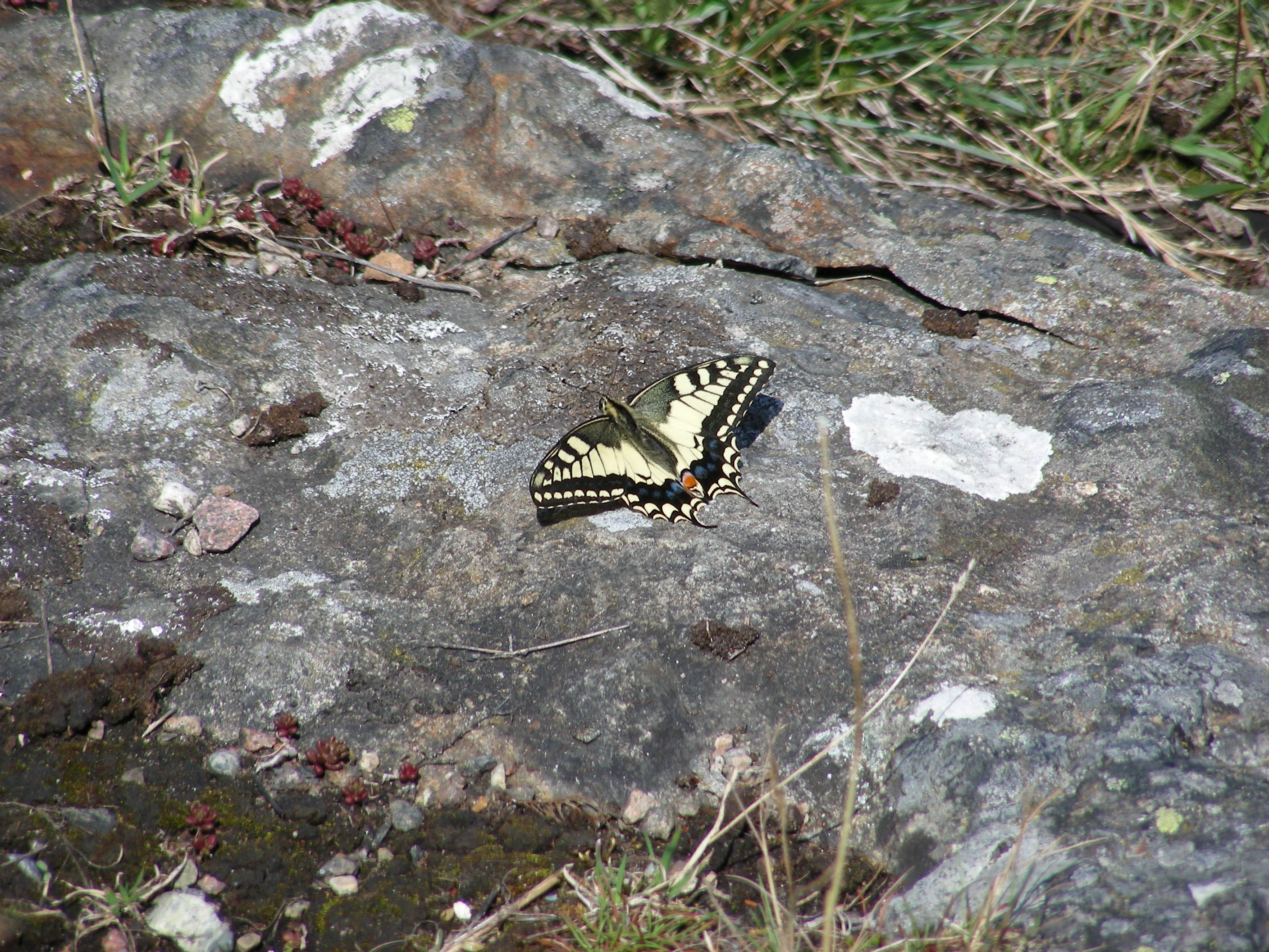 Photograph by: Thomas Eliasson, SGU Date: 20090717 Place: Koster National Park, Sweden